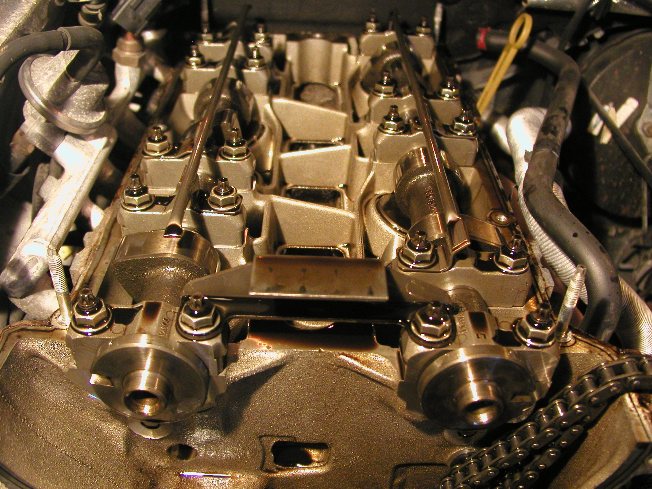 The cylinder head of a Ford I4 DOHC engine, with the camshafts mounted. The camshaft drive wheels have been removed, and the timing chain is hanging over the right side of the head.